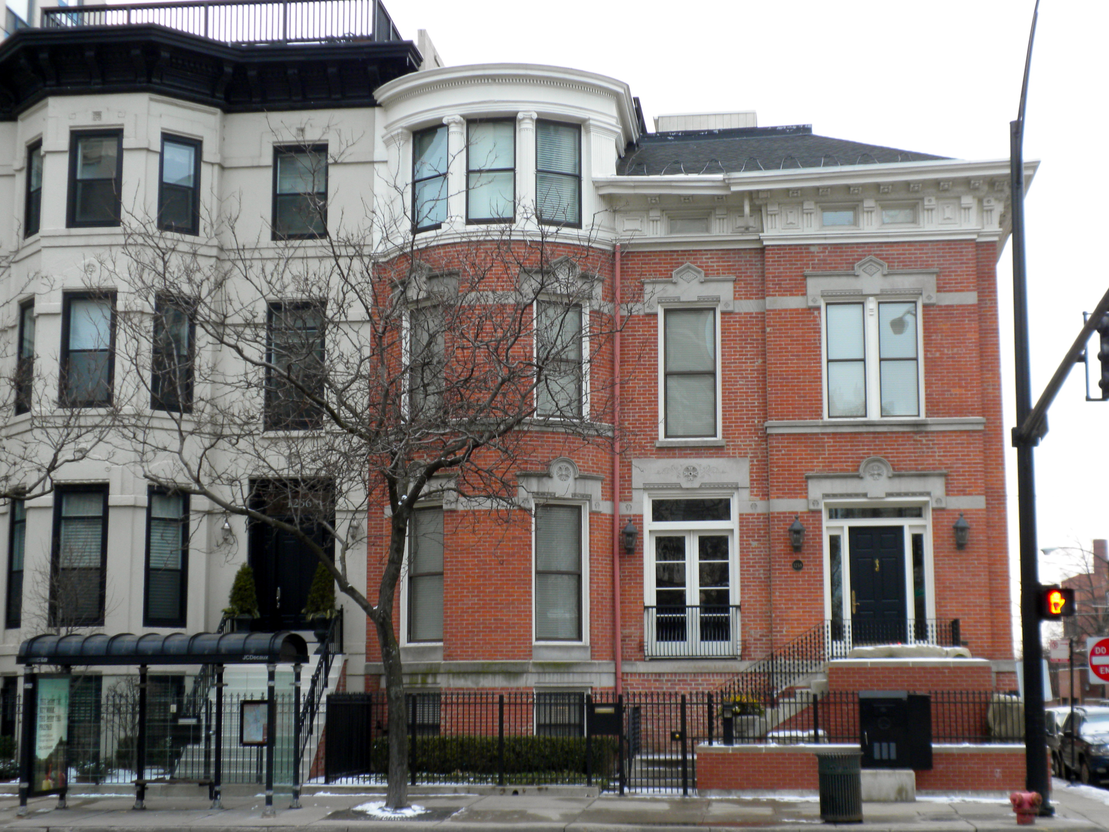 Swedish Club of Chicago on the NRHP since December 2, 1985 at 1258 N. LaSalle Street on Chicago's Near North Side